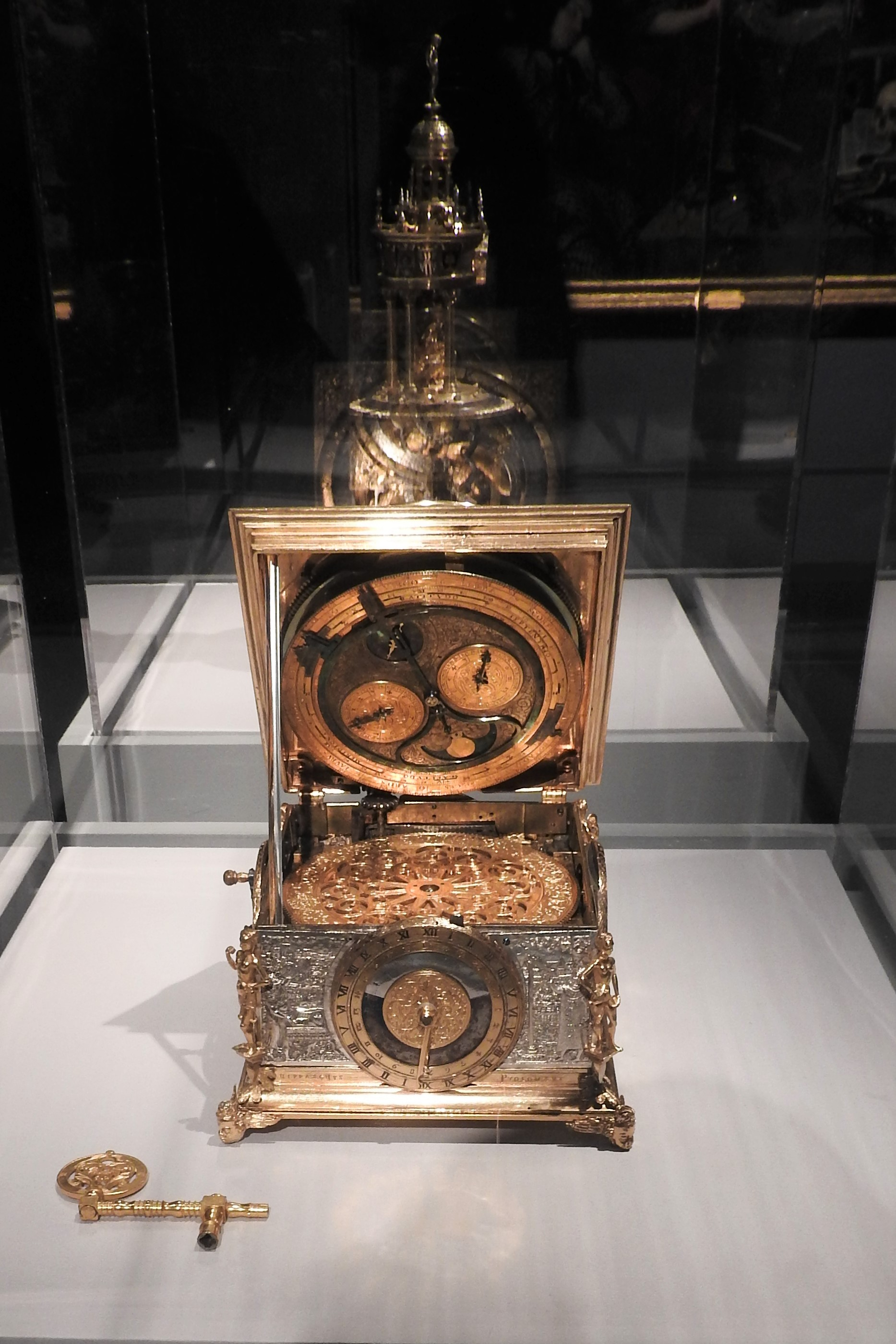 Clock from Germany with Moon according to Copernican theory